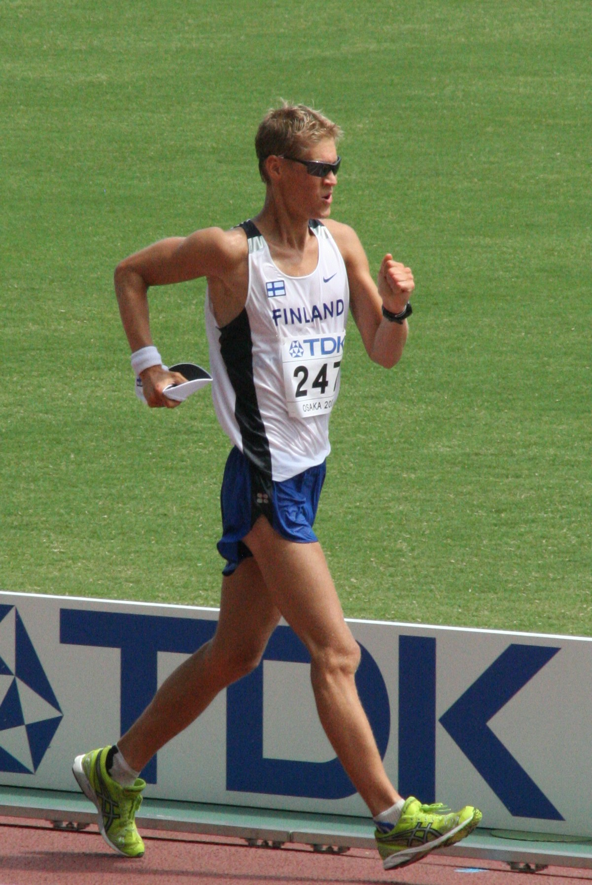 World Athletics Championships 2007 in Osaka - A Finnish near the finish - Race Walker Antti Kempas